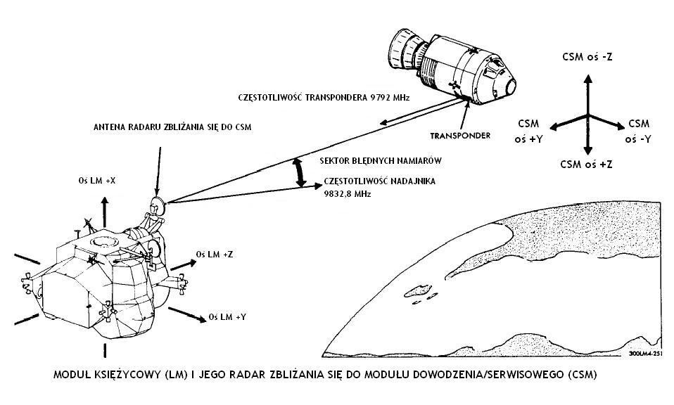 LM rendezvous radar and CSM targed orientations